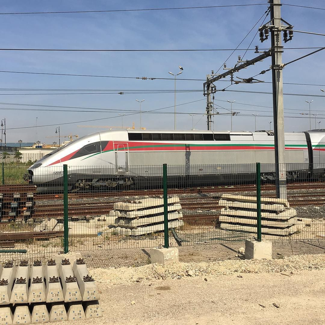 ONCF TGV 2N2 Euroduplex